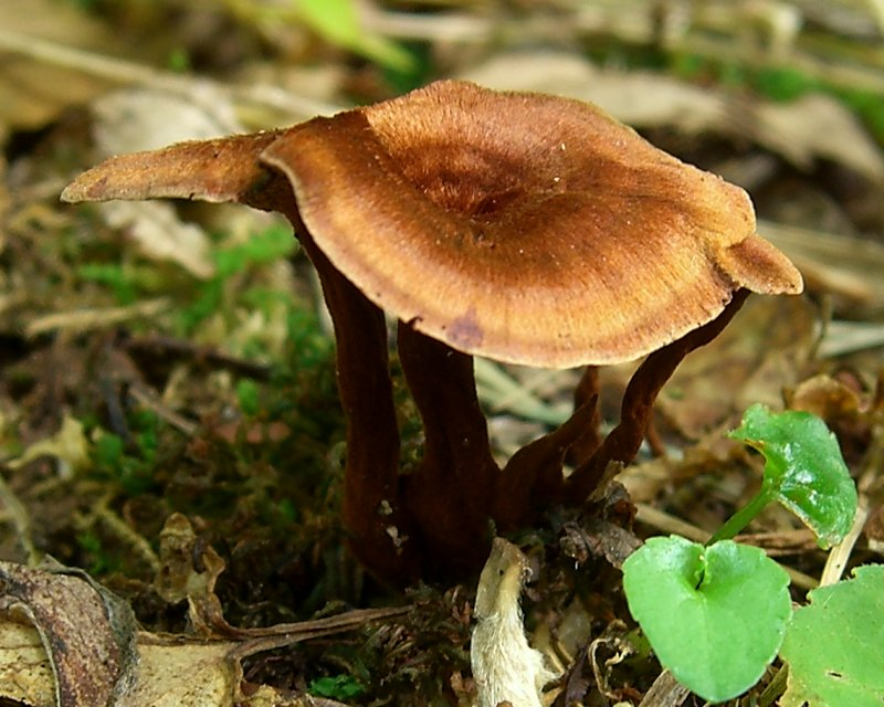 Scientific Name: Coltricia cinnamomea (Pers.) Murr. Common Name: Fairy Stool Certainty: positive (notes) Location: Central Appalachians; George Washington NF; Shenandoah Mt